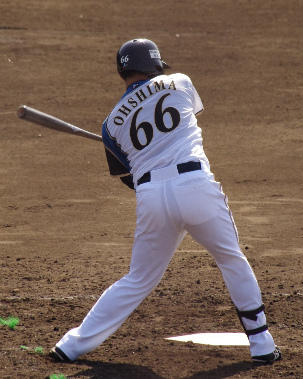 Takumi Ohshima, catcher of the Hokkaido Nippon-Ham Fighters, at Fighters Stadium.